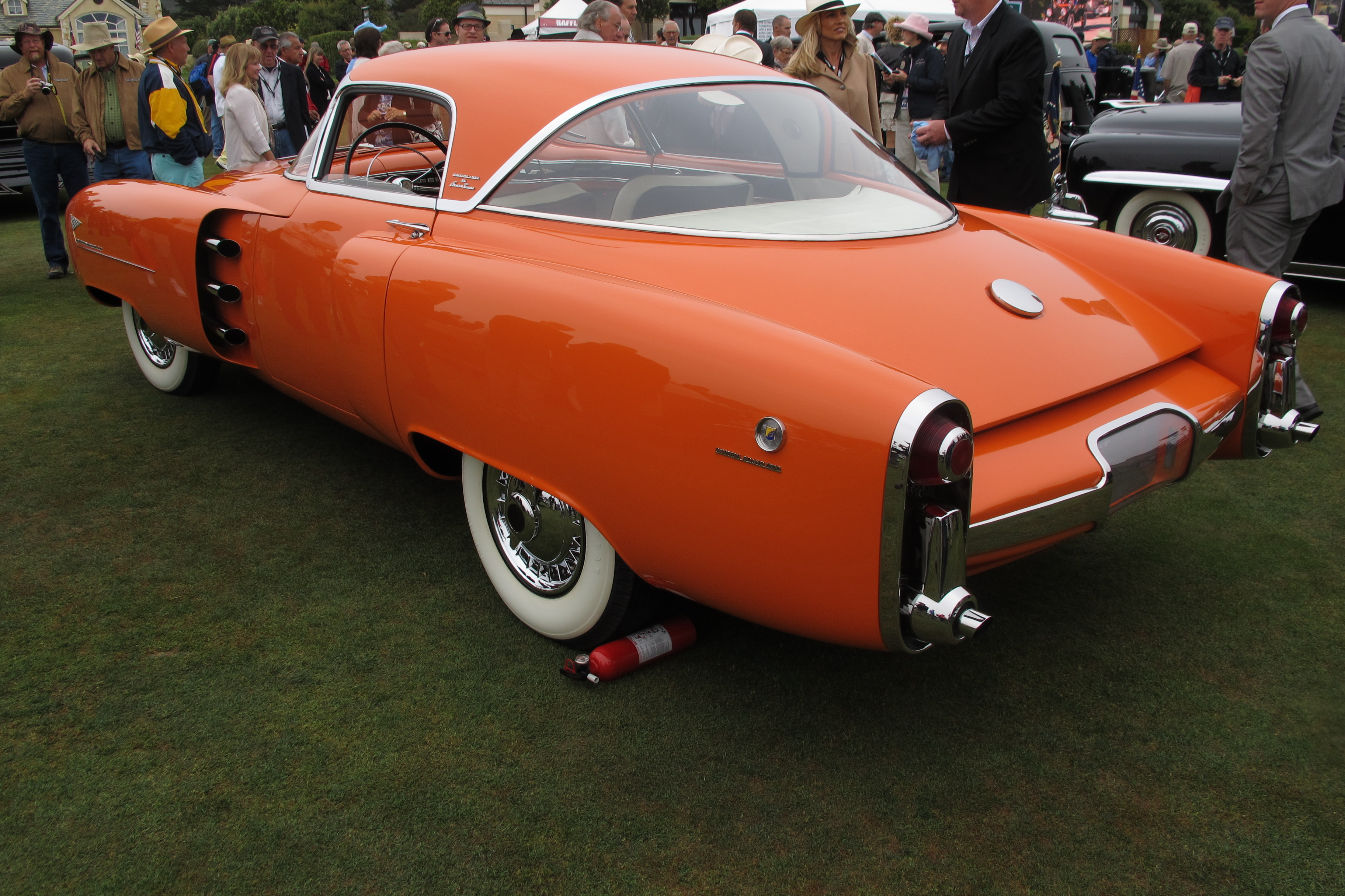 A custom bodied 1955 Lincoln by Carrozzeria Boano of Turin, Italy. Displayed at the Pebble Beach Concours.